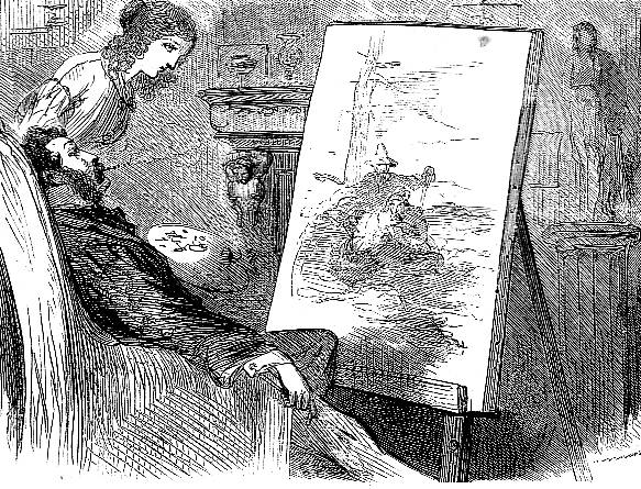 Little Dorrrit, Mr et Mrs Henry Gowan